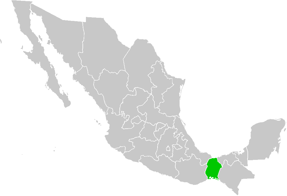 Map of the former Mexican territory of the Isthmus